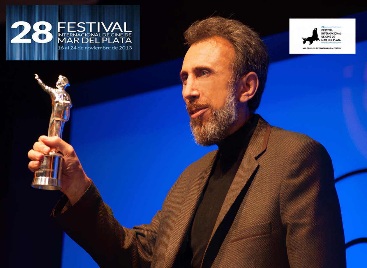 Hossein Shahabi at the mar del plata film festival 2013